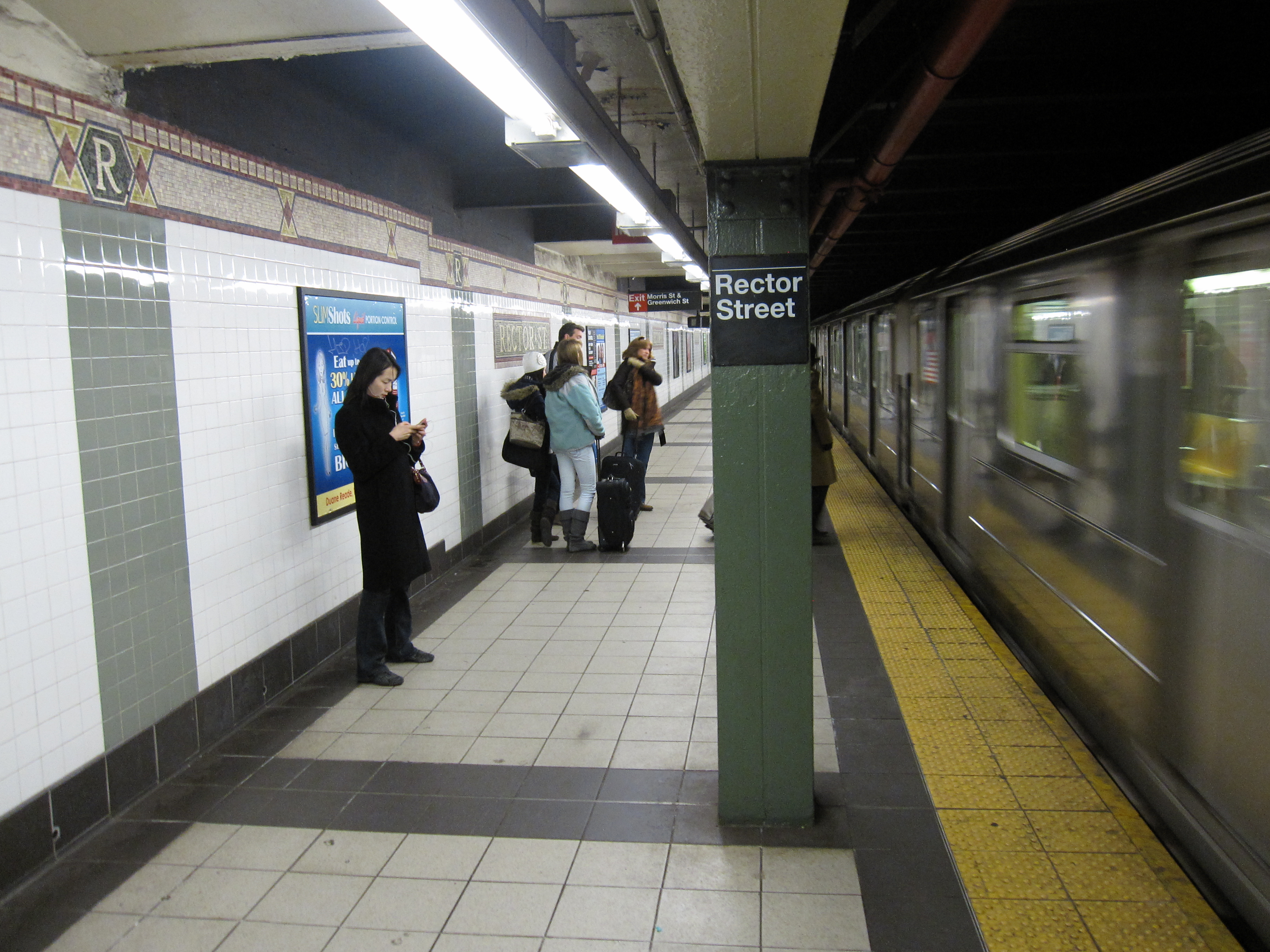 Rector Street (IRT Broadway – Seventh Avenue Line)